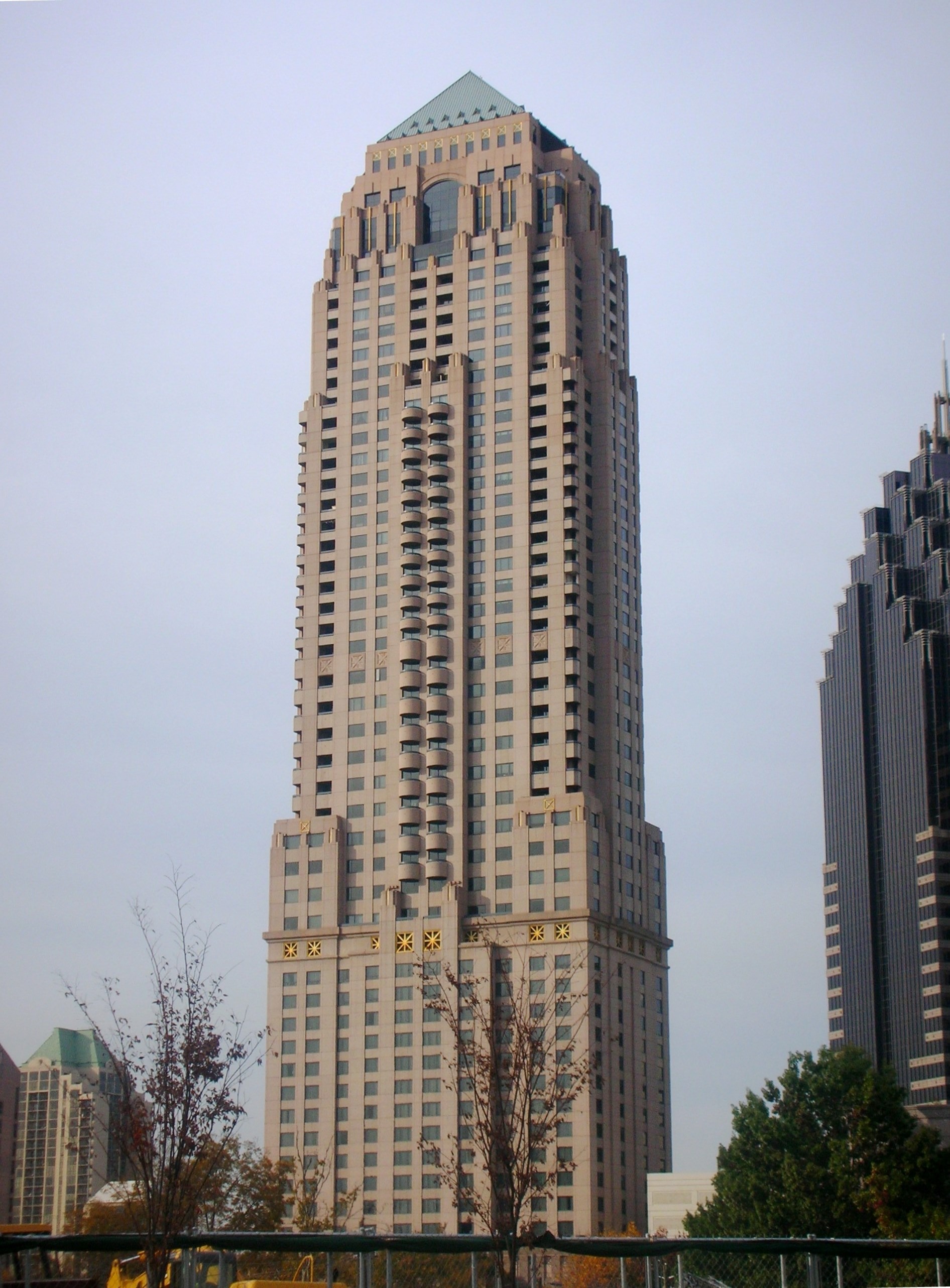 Category:Images of Atlanta, Georgia